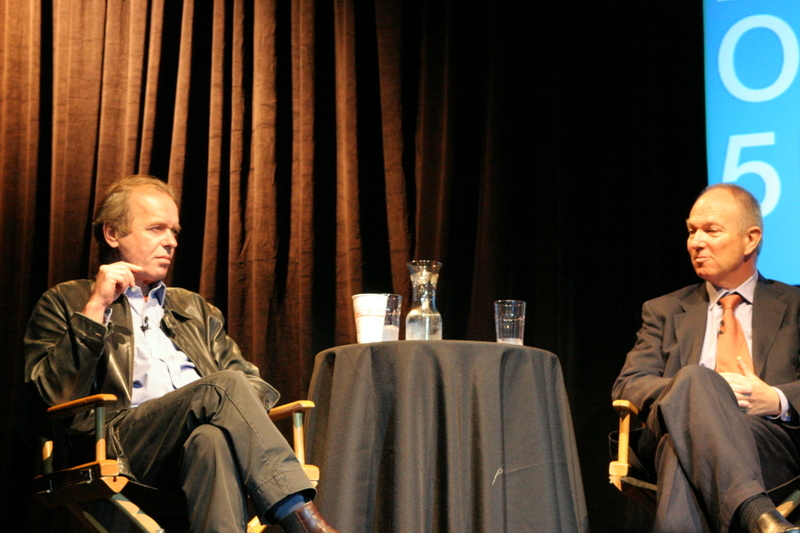 A conversation between Martin Amis and Ian Buruma on "Monsters" at the 2007 New Yorker Festival.